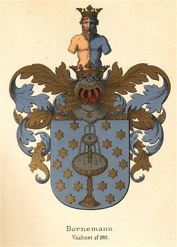 Coat of arms of the Bornemann family